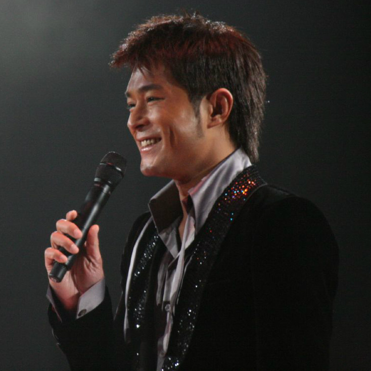 Louis Koo